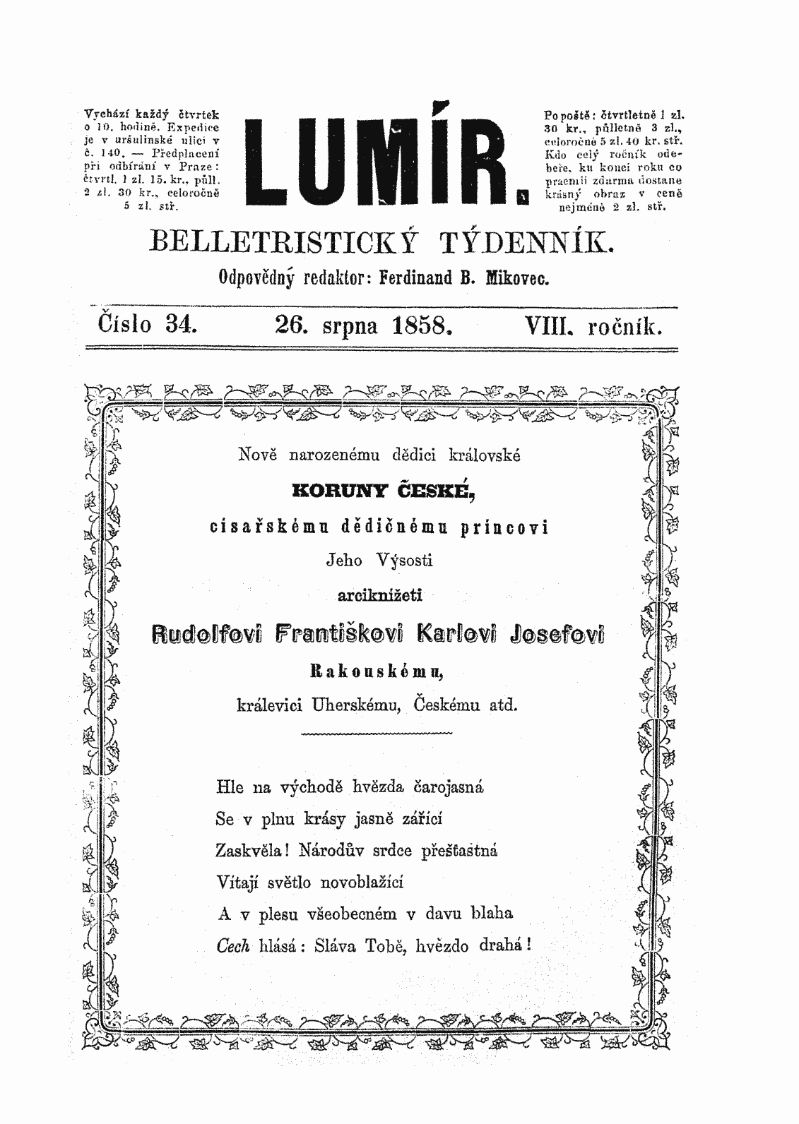 A front page of Czech-language literary magazine Lumír, featuring a big congratulation (in prose as well as poetry) to the birth of Rudolf, Crown Prince of Austria